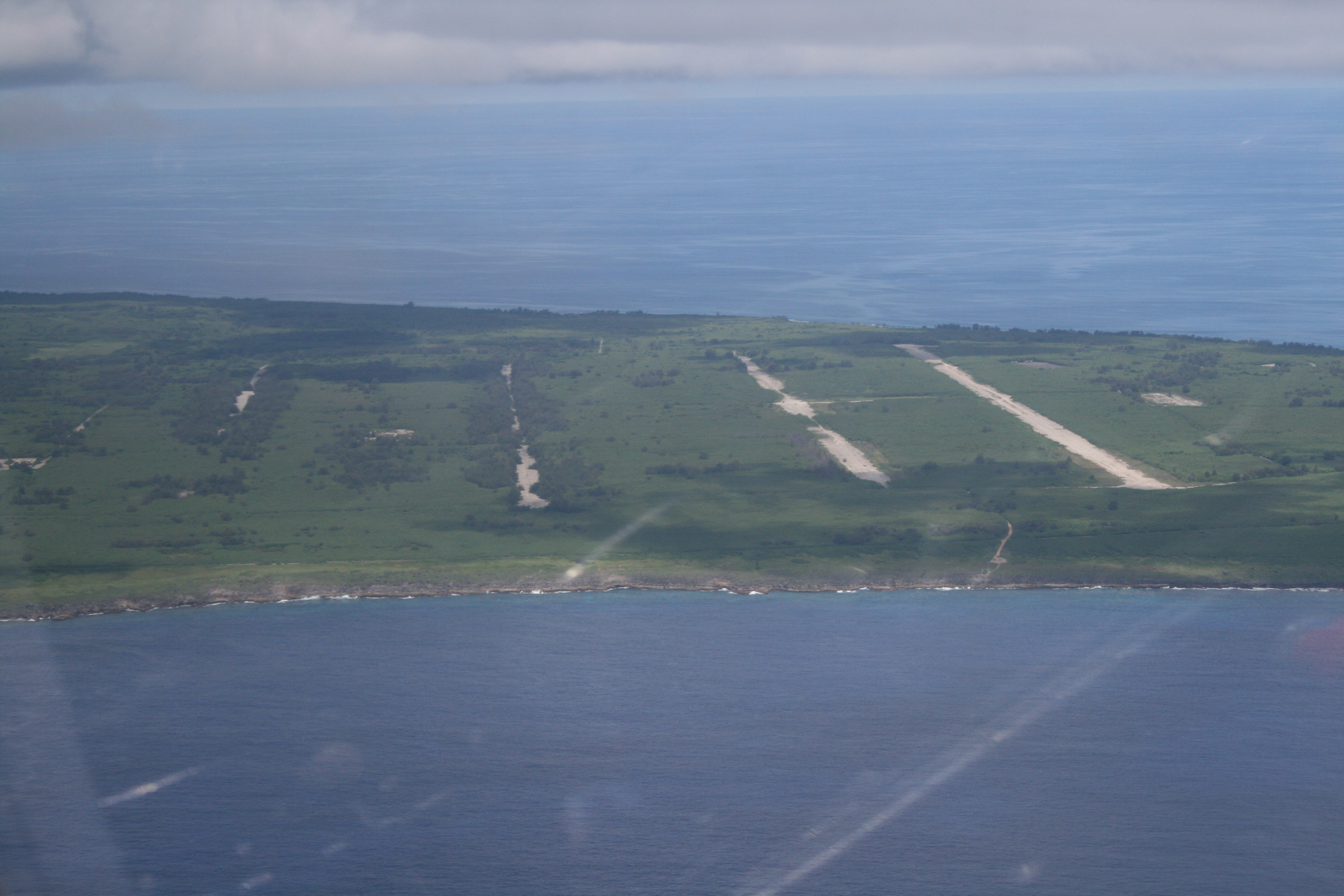 Aerial view of North Field (Tinian), 27 August 2008